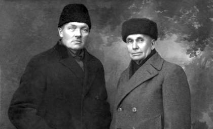 Photograph of the Finnish politicians Juho Kustaa Lehtinen (1883–1937) and Yrjö Sirola (1876–1936).